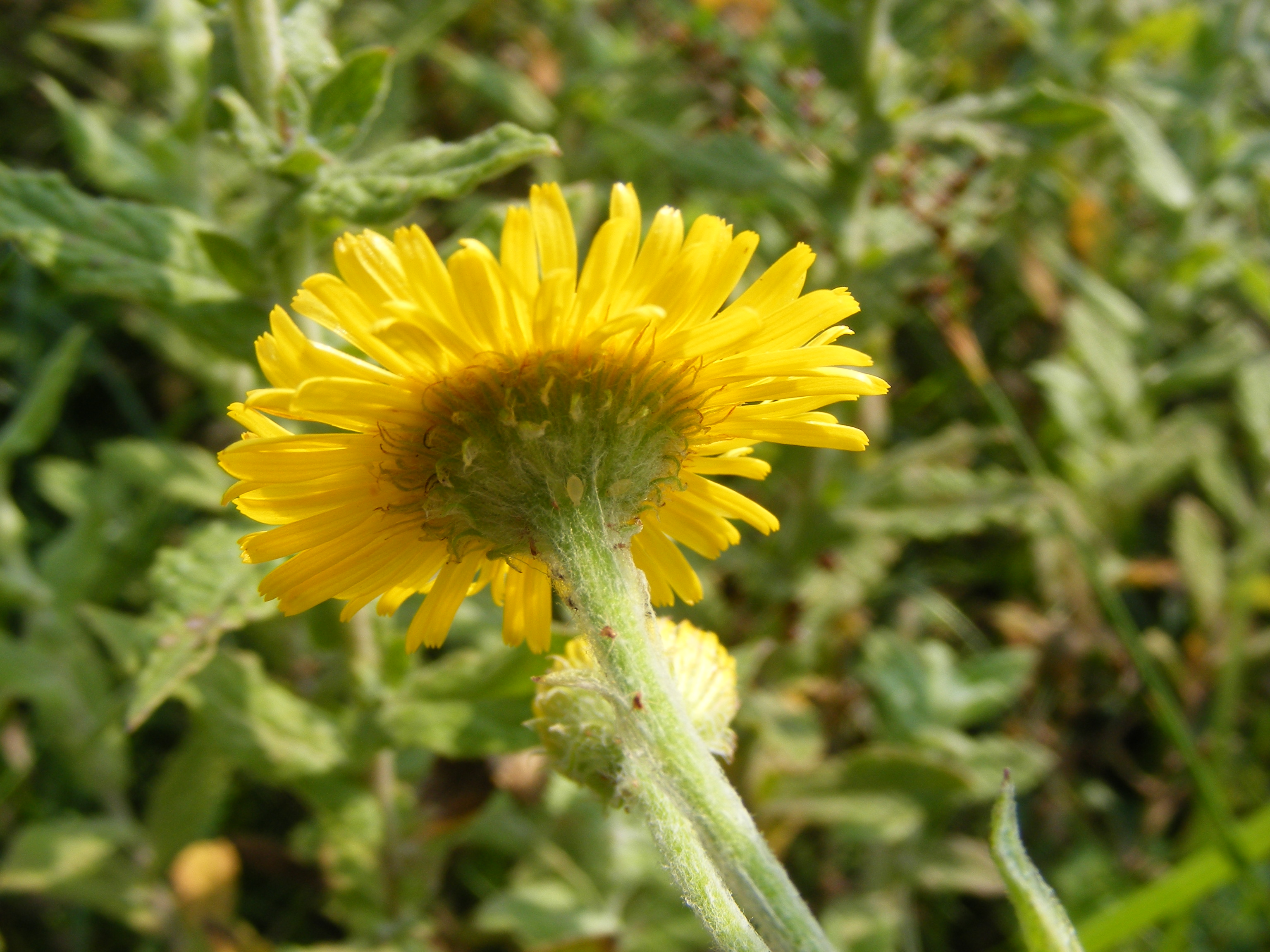 This photo shows Pulicaria dysenterica